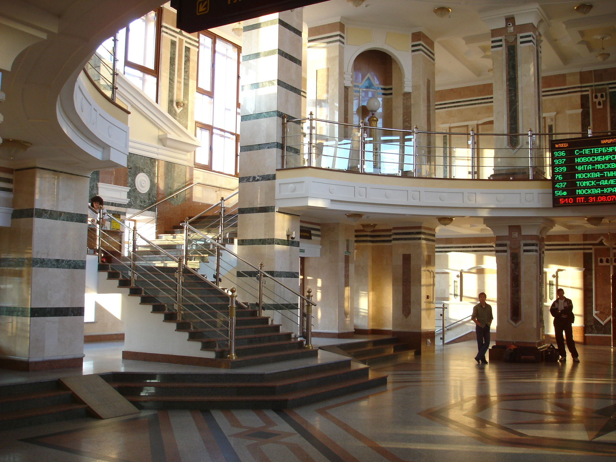 Omsk railroad station hall